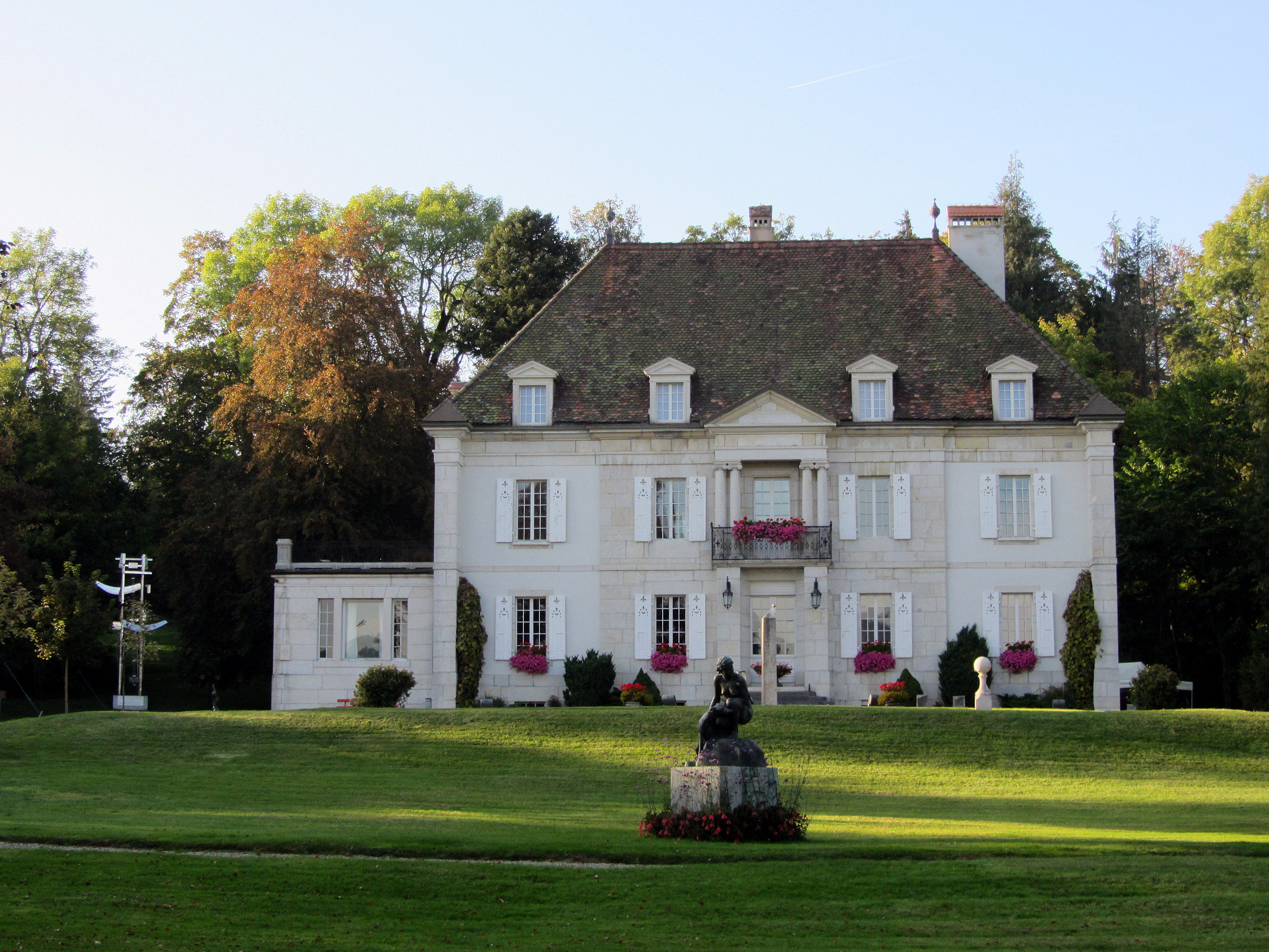 Switzerland, Le Locle, Château des Monts, museum of horology